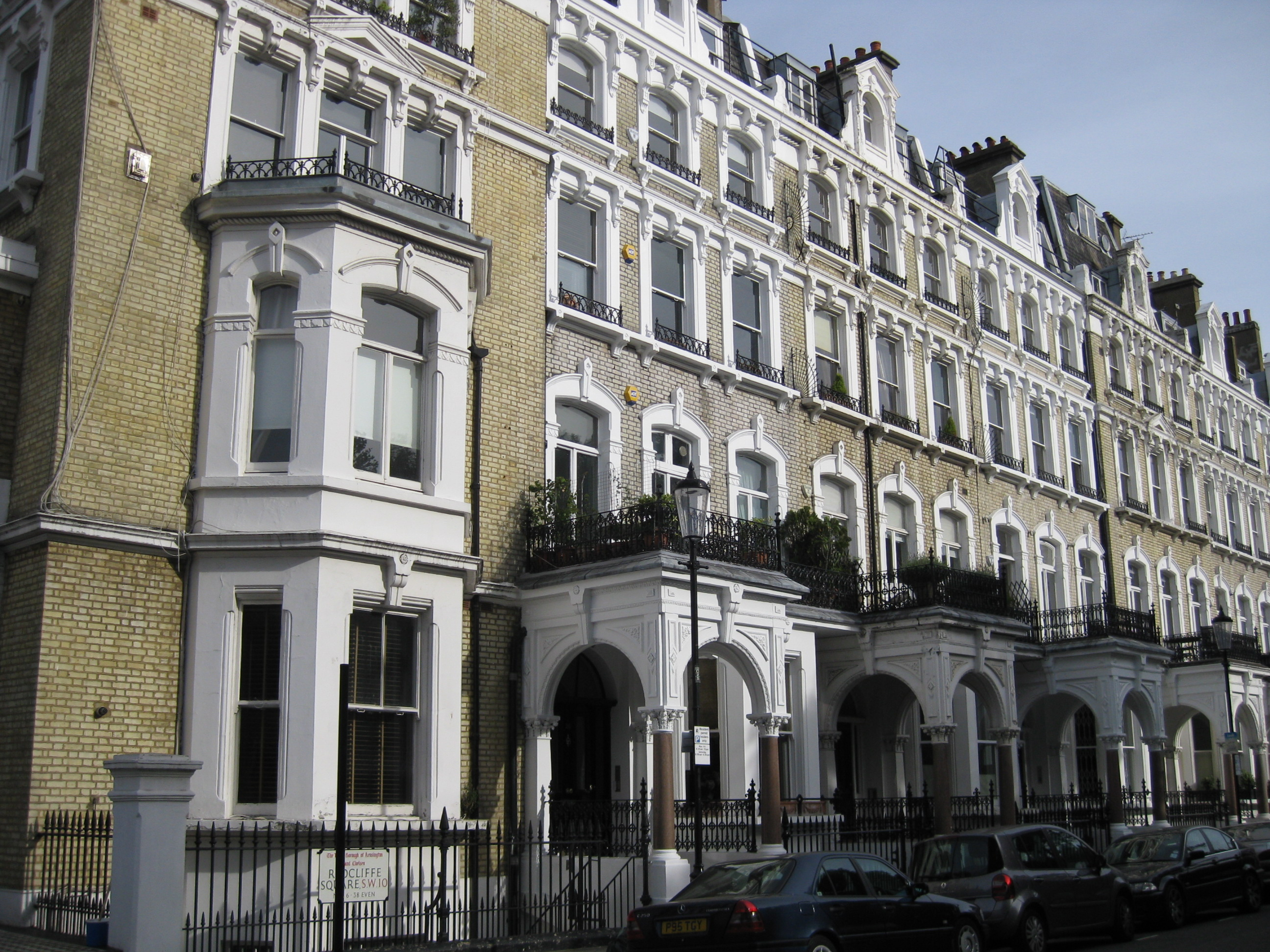 Terraced houses in Redcliffe Square, Kensington, London SW10